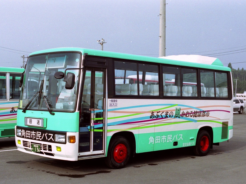 Miyakou Sennan bus (Kakuda city bus) Hino Rainbow 7W (U-RH1WFBA)